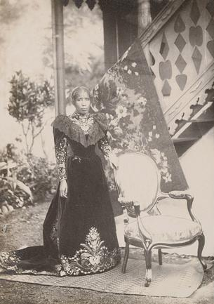 Ranavalona III, last queen of Madagascar. Photo taken during her exile in Reunion Island, April 1897.